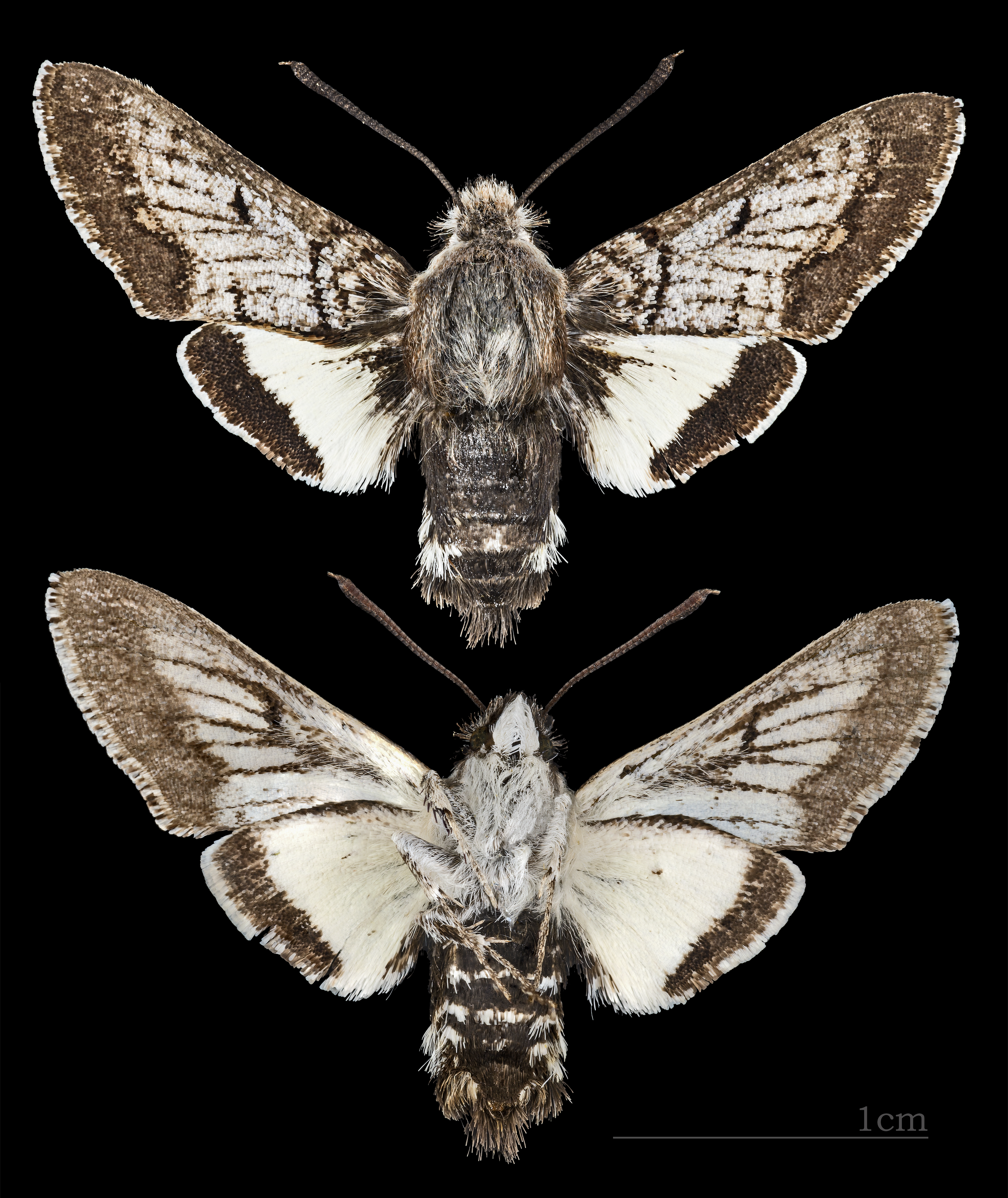 Phaeton Primrose Sphinx Moth - Two views of same specimen Collection of the Mathematician Laurent Schwartz